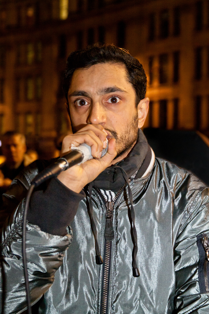 I took this photo during Riz MC's 2011 NYE set at the Occupy London camp by St. Paul's Cathedral.